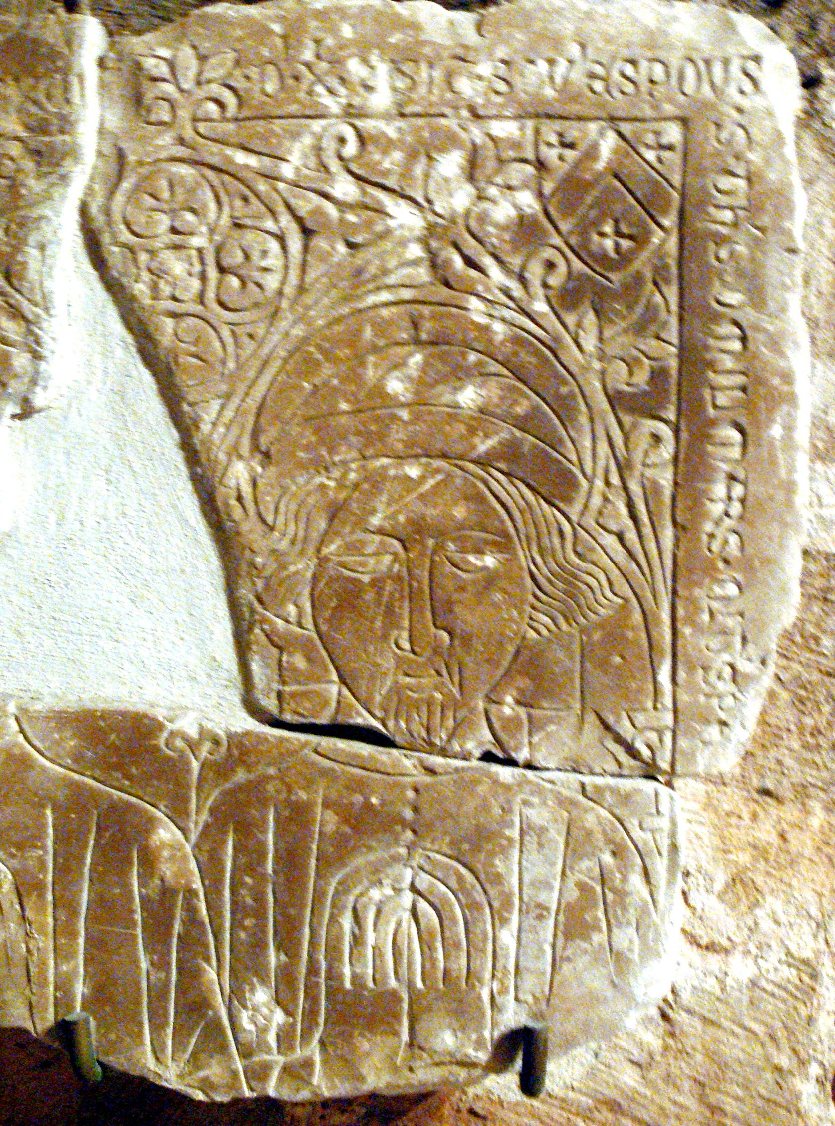 Limassol ( Cyprus ). Medieval Museum: Gravestone ( 14th century ).